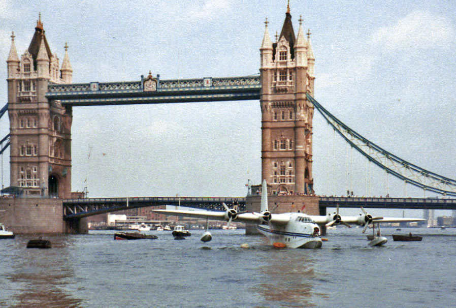 Photograph of a Short Sunderland flying boat just having passed under Tower Bridge in London, England. Photo taken by Wing Cmdr (retd) Derek Martin [1] and uploaded by me at his request.